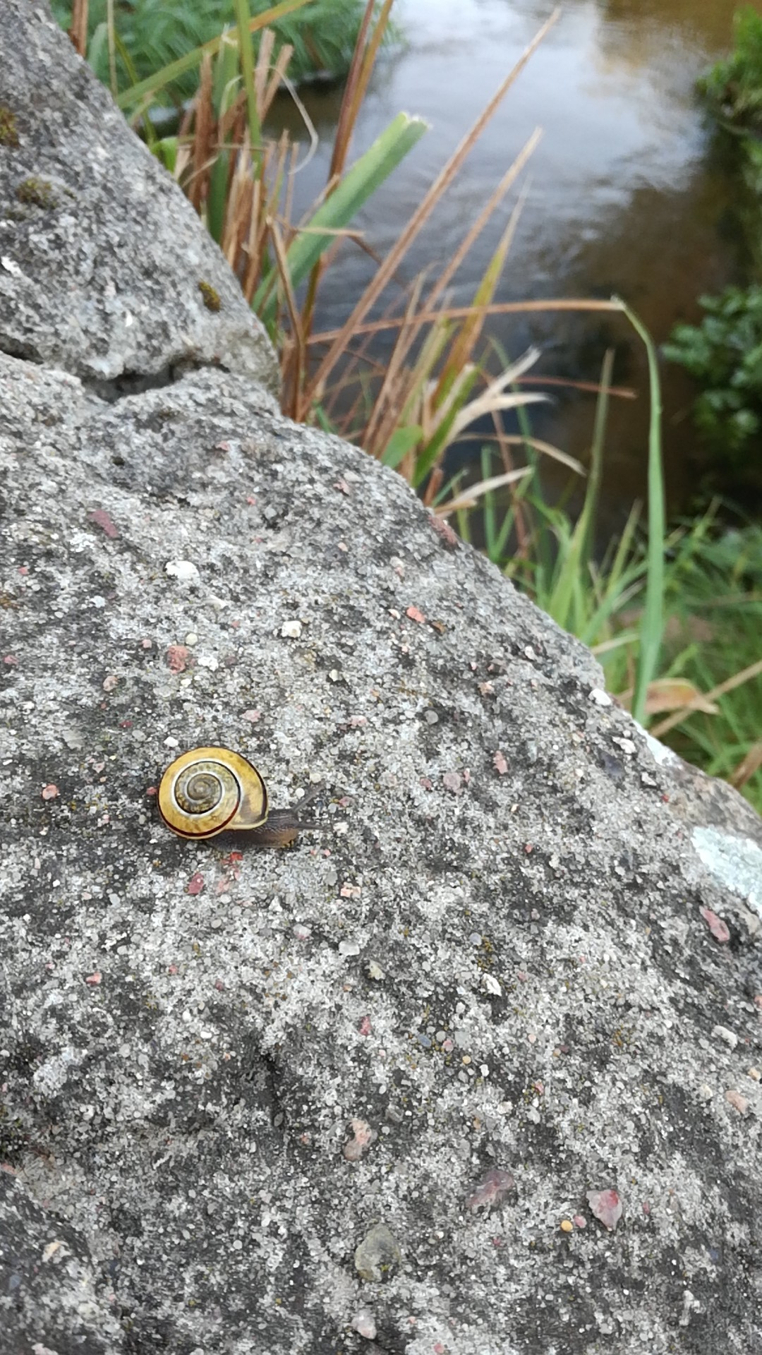 A photo of a snail found on a rock near the Pacynka river.